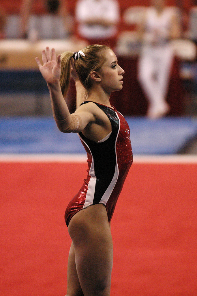 Gymnast Kathryn Howard, of the University of Nebraska- Lincoln gymnastics team on the balance beamGymnast 2